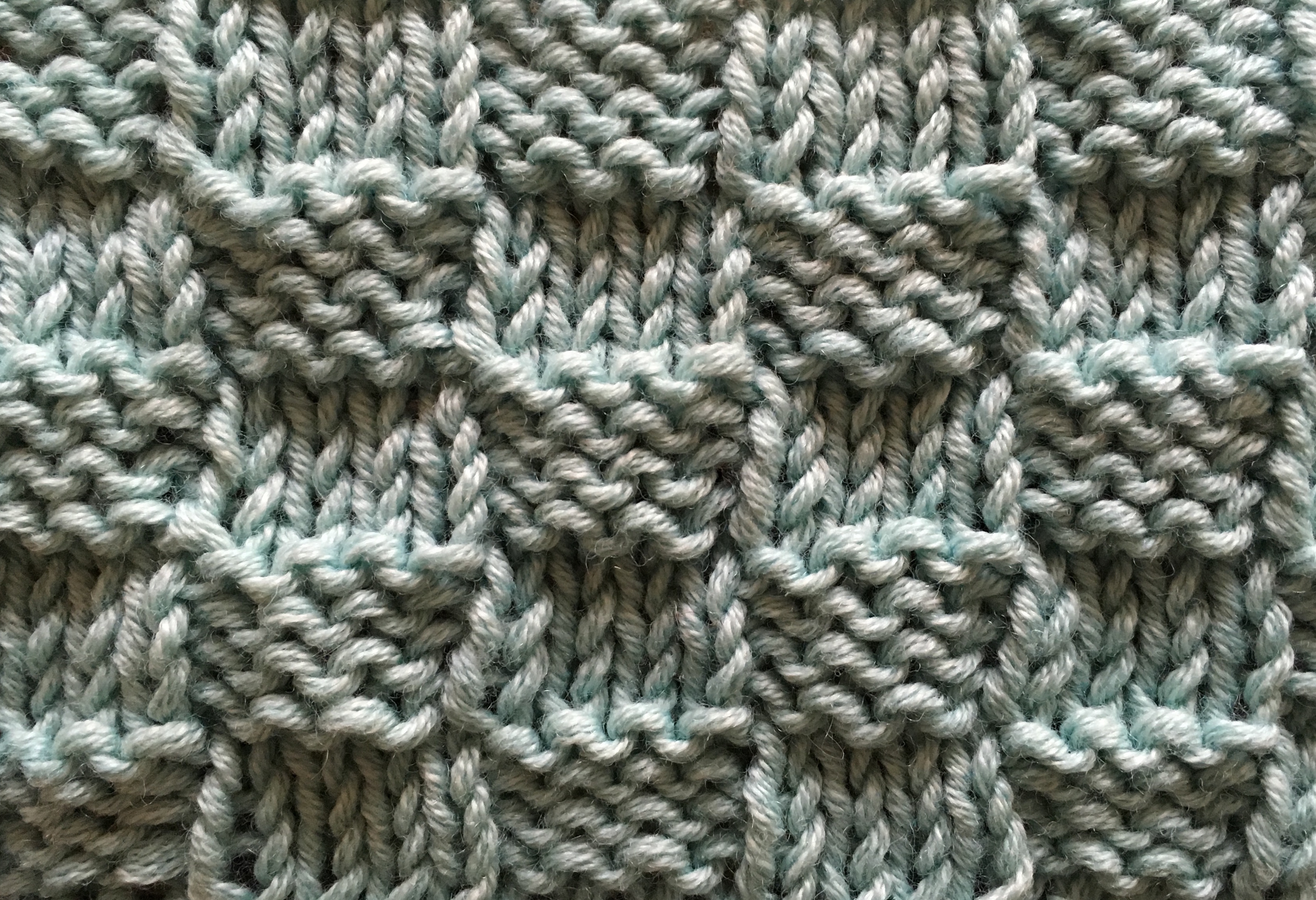 Knitting swatch of simple basketwaeve pattern.